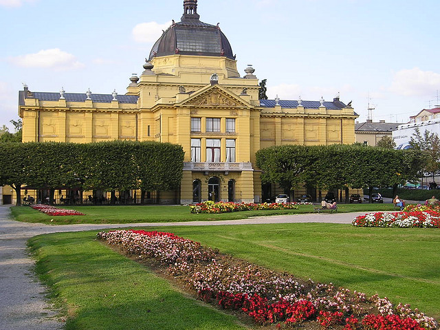 Picture of the Art Pavilion building in Zagreb, Croatia. Taken on 30 September 2003.